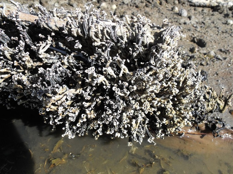 Ficopomatus enigmaticus photographed in a brackish lagoon in Grossteo province, Tuscany, central Italy. Photo by Massimiliano Marcelli.